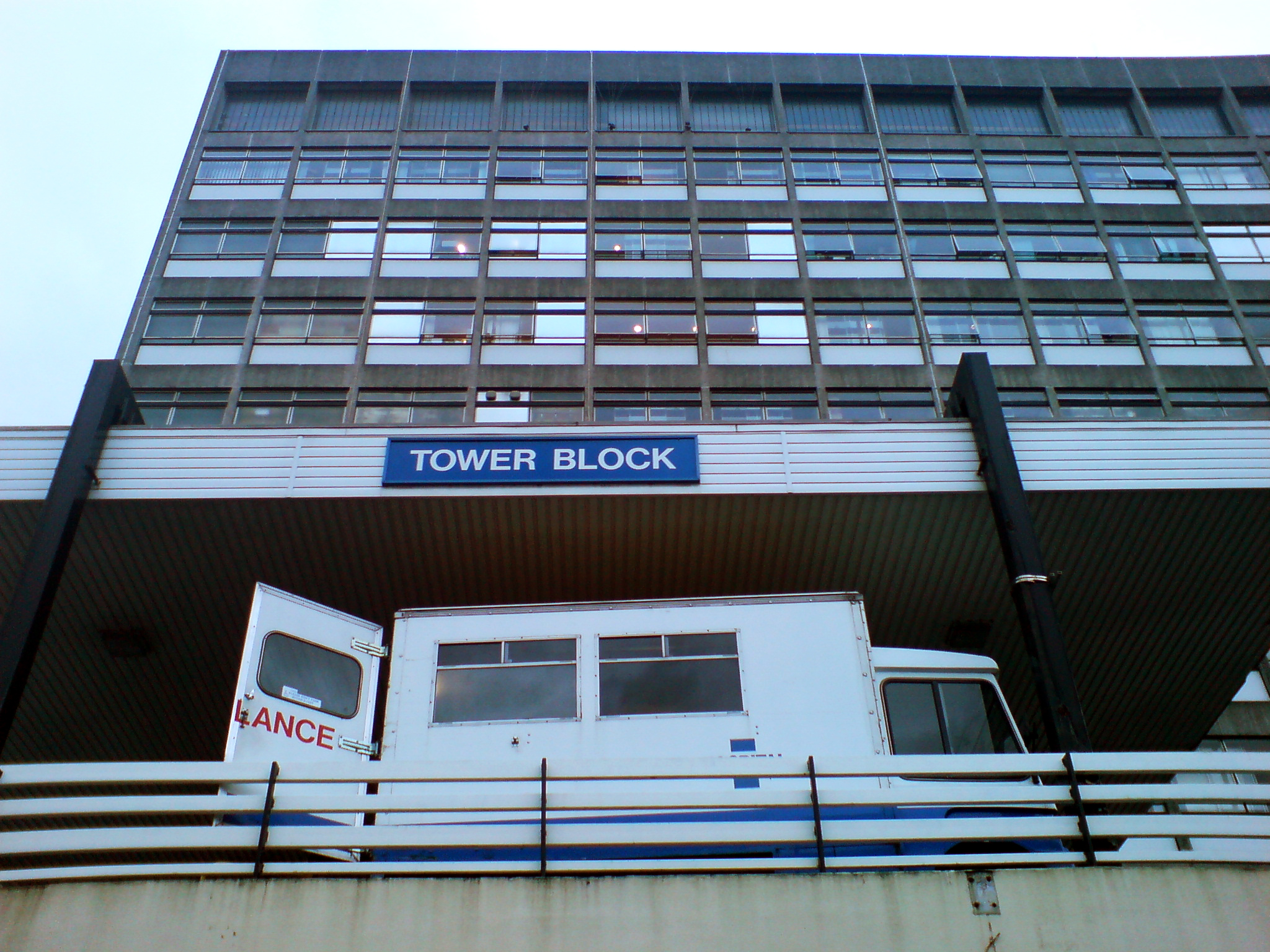 20 years, 8 months and 6 days ago I was brought into the world here.